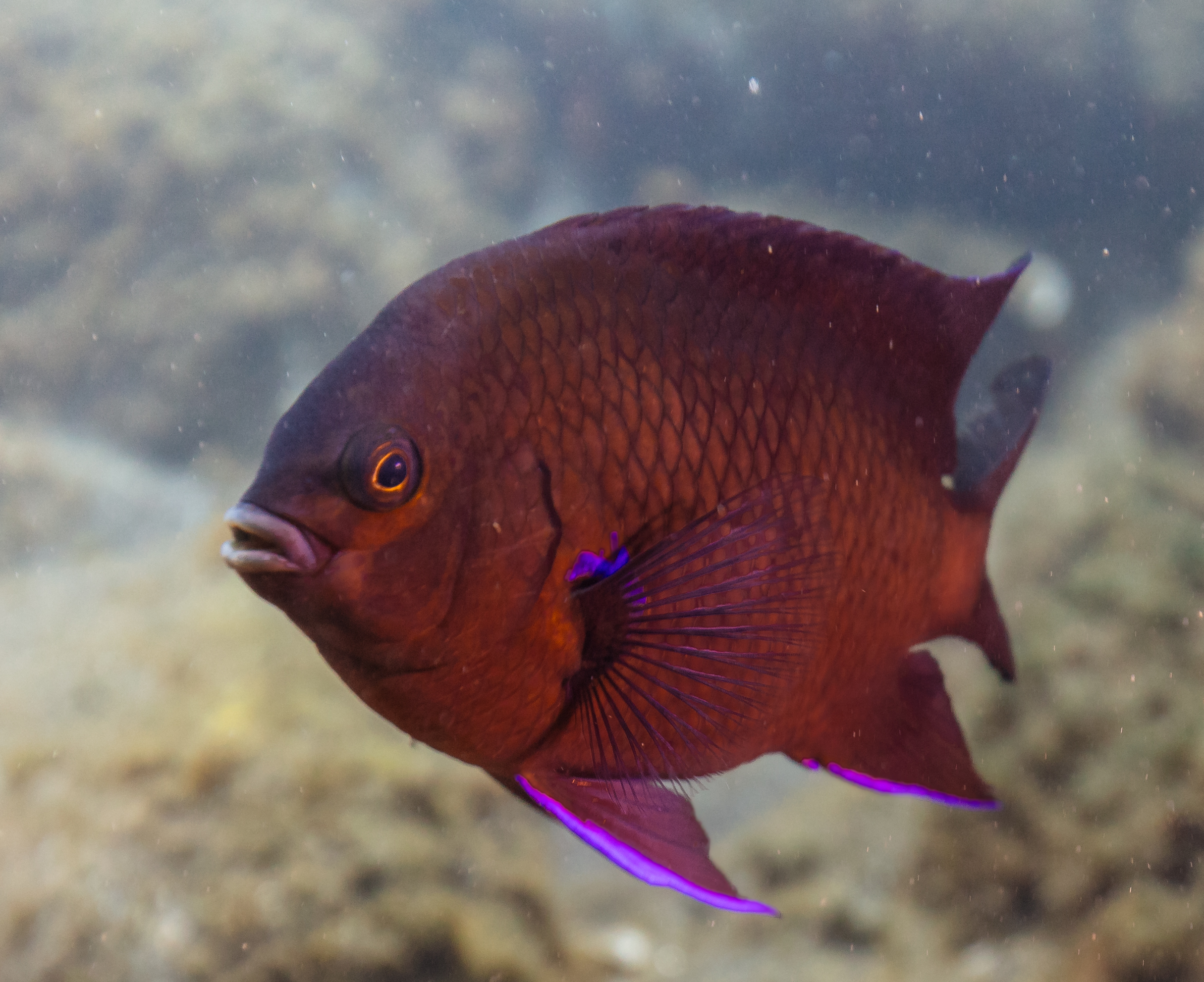 Canary damsel (Abudefduf luridus), Madeira, Portugal